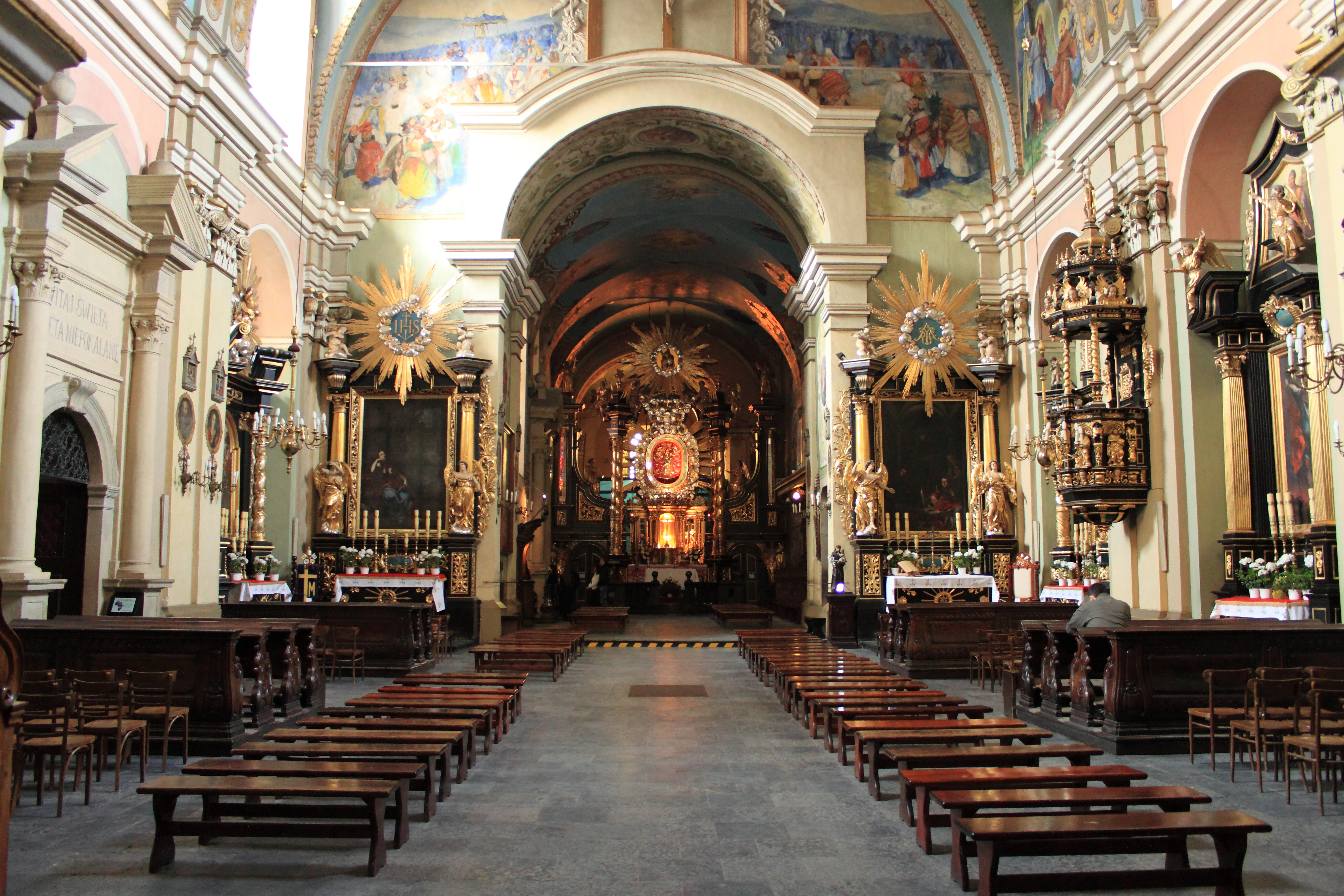 The interior of the basilica in Kalwaria Zebrzydowska view from the choir.